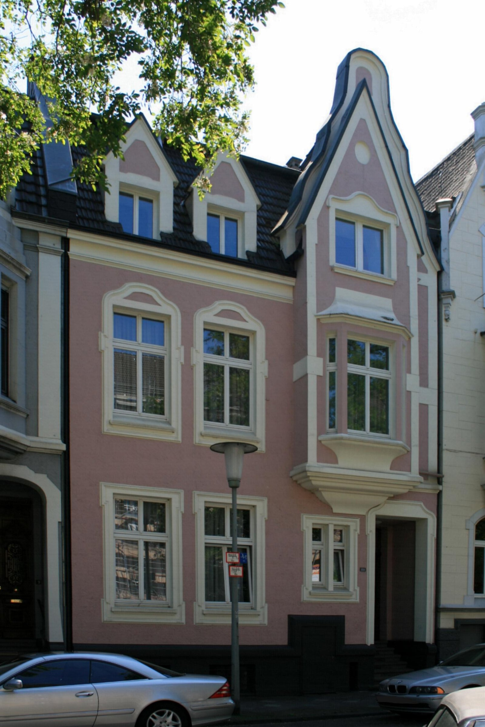 Cultural heritage monument No. H 015 in Mönchengladbach